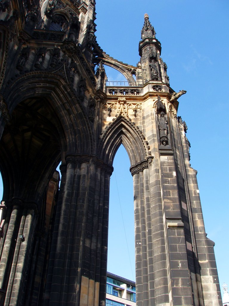 Taken from East Princes St Gardens.